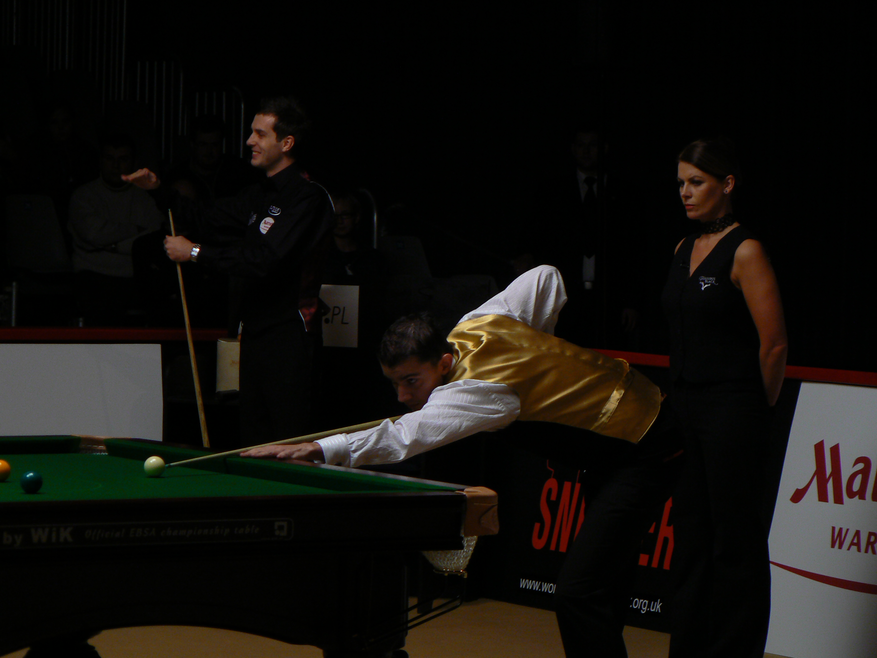 Mariusz Sirko just before the first frame set and judged by Michaela Tabb. In the back Mark Selby amused by something.